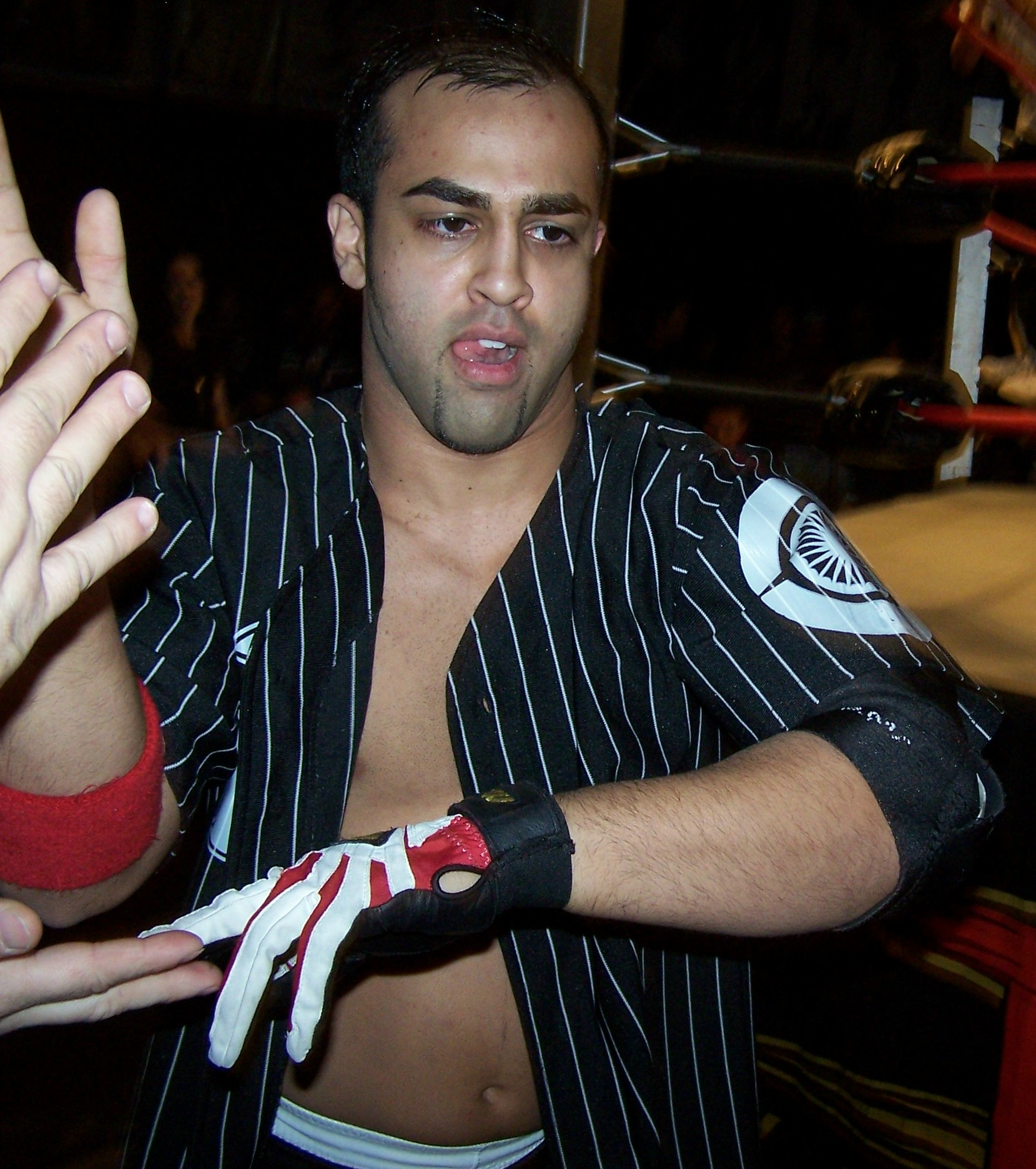 Photo of Sonjay Dutt taken at a TNA house show.